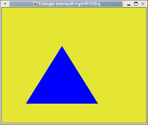 Initial output of OpenGL program "colorswap.c". This is a simple demonstration showing the first concepts. At this point, OpenGL is used only as IBM's graphical data display manager (GDDM): in 2D.